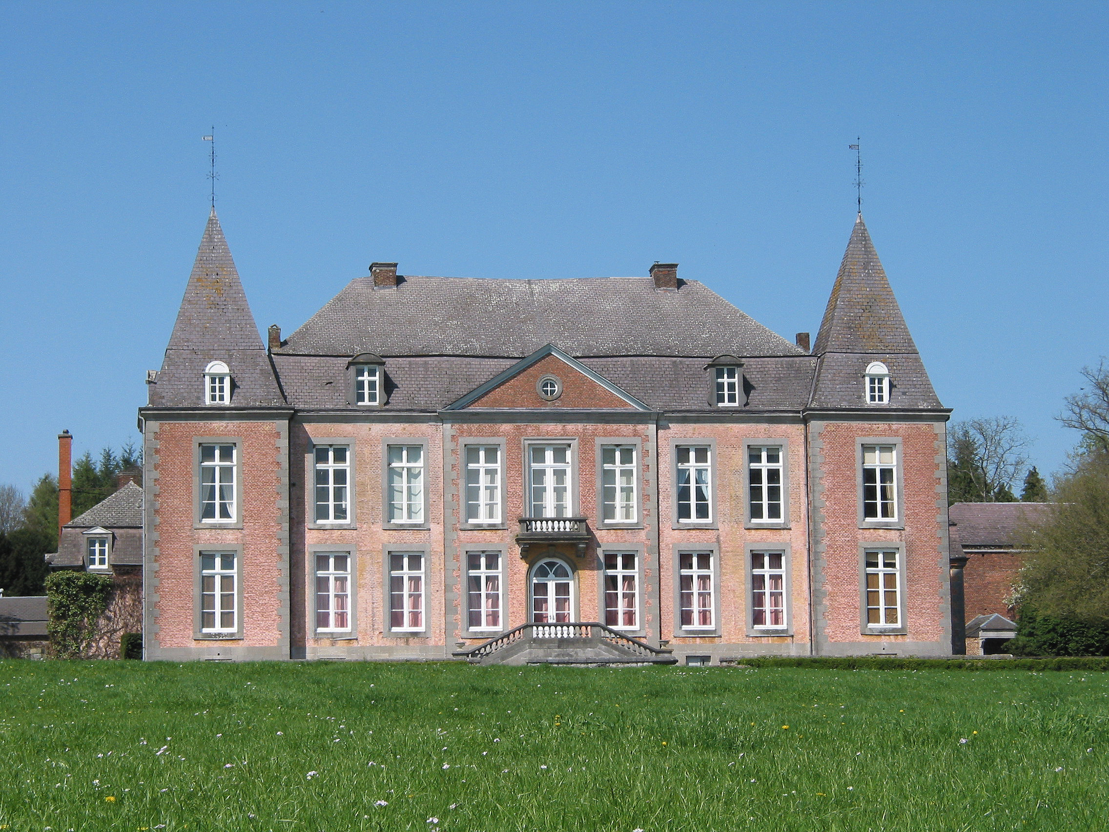 Sorinnes (Belgium), the castle (XIXth century).